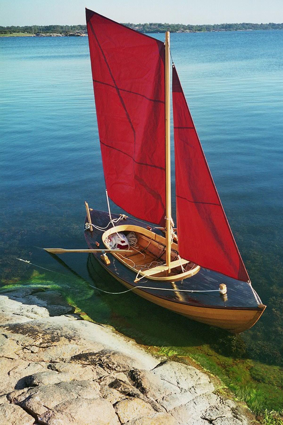 Jaktkanot clinked build in oak year 2006 by Sven Olsson. L 4,40 x B 140.